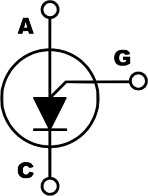 PUT symbol